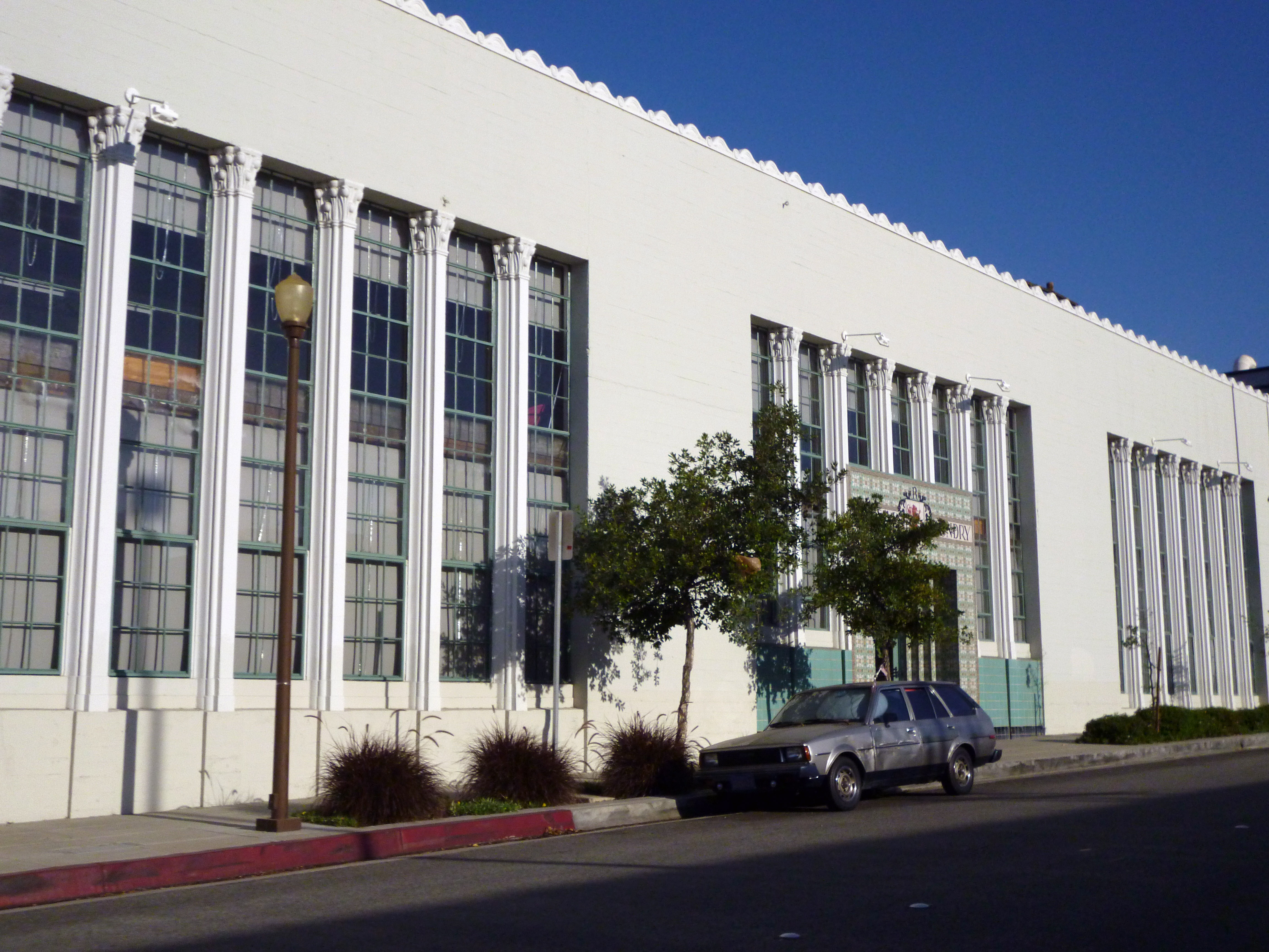 Disney Store Worldwide Headquarters at 443 South Raymond Avenue, Pasadena, California.